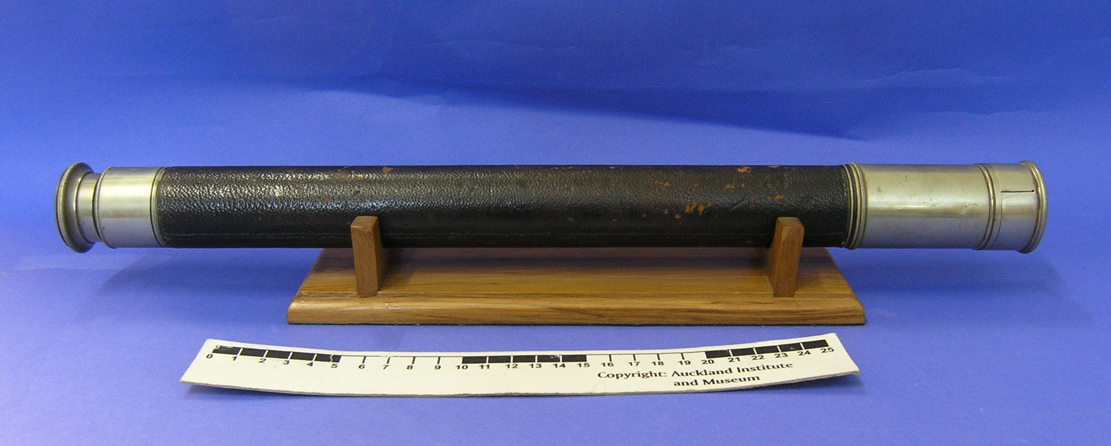 Telescope with wooden stand, circa 1900 Used by the late C Reginald Ford as a member of Scott's First Antarctic Expedition 1901-1904 metal telescope with leather cover; metal lens cap; wooden stand markings- owner's name engraved- "C. Reginald Ford. R.N."